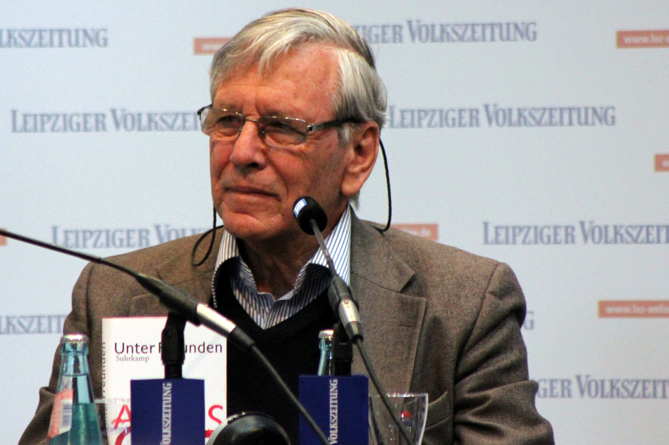 Amos Oz, Leipzig Book Fair 2013